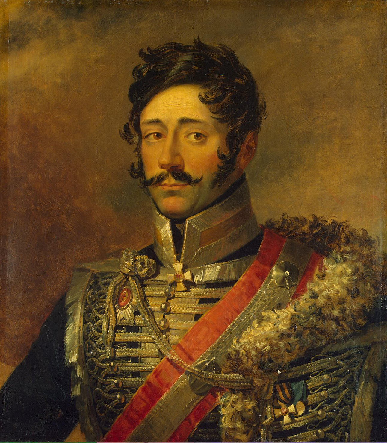 Alexey Petrovich Melissino (1759 – 15.08.1813) russian general